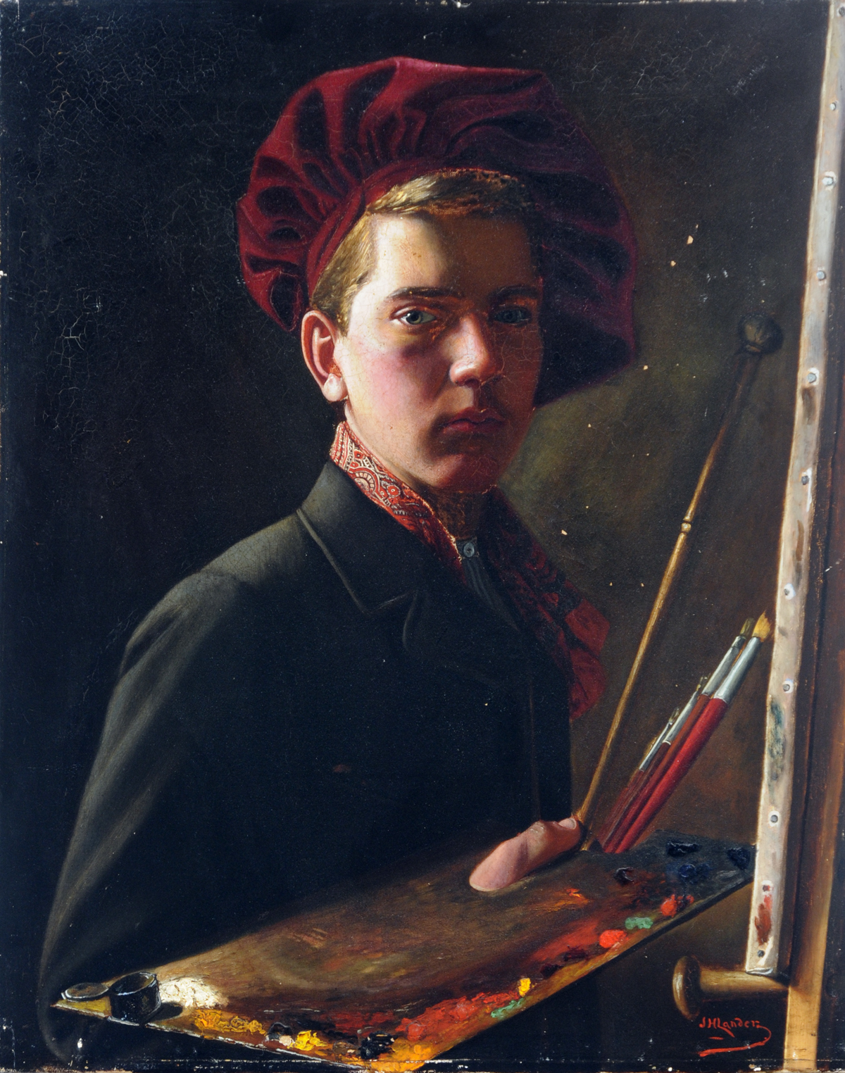 Self portrait by John St Helier Lander, late 19th century, painted whilst he was working at Jersey Ladies' College.